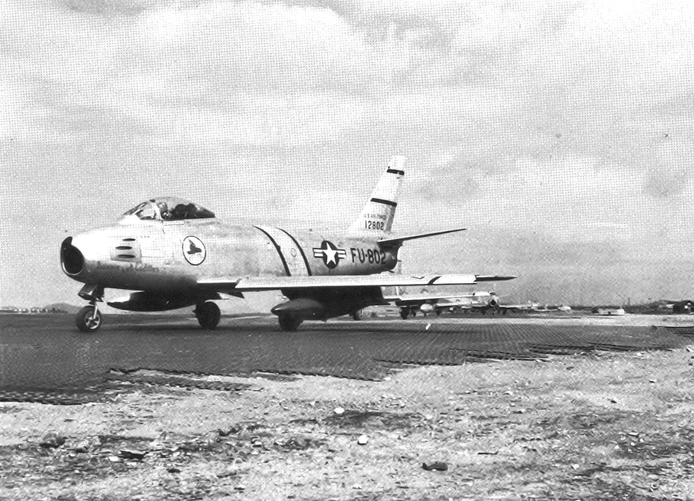 334th Fighter-Interceptor Squadron North American F-86E-10-NA Sabre 51-2802 "Bonnie and Cuddles", K-14 (Kimpo AB), South Korea, 1952